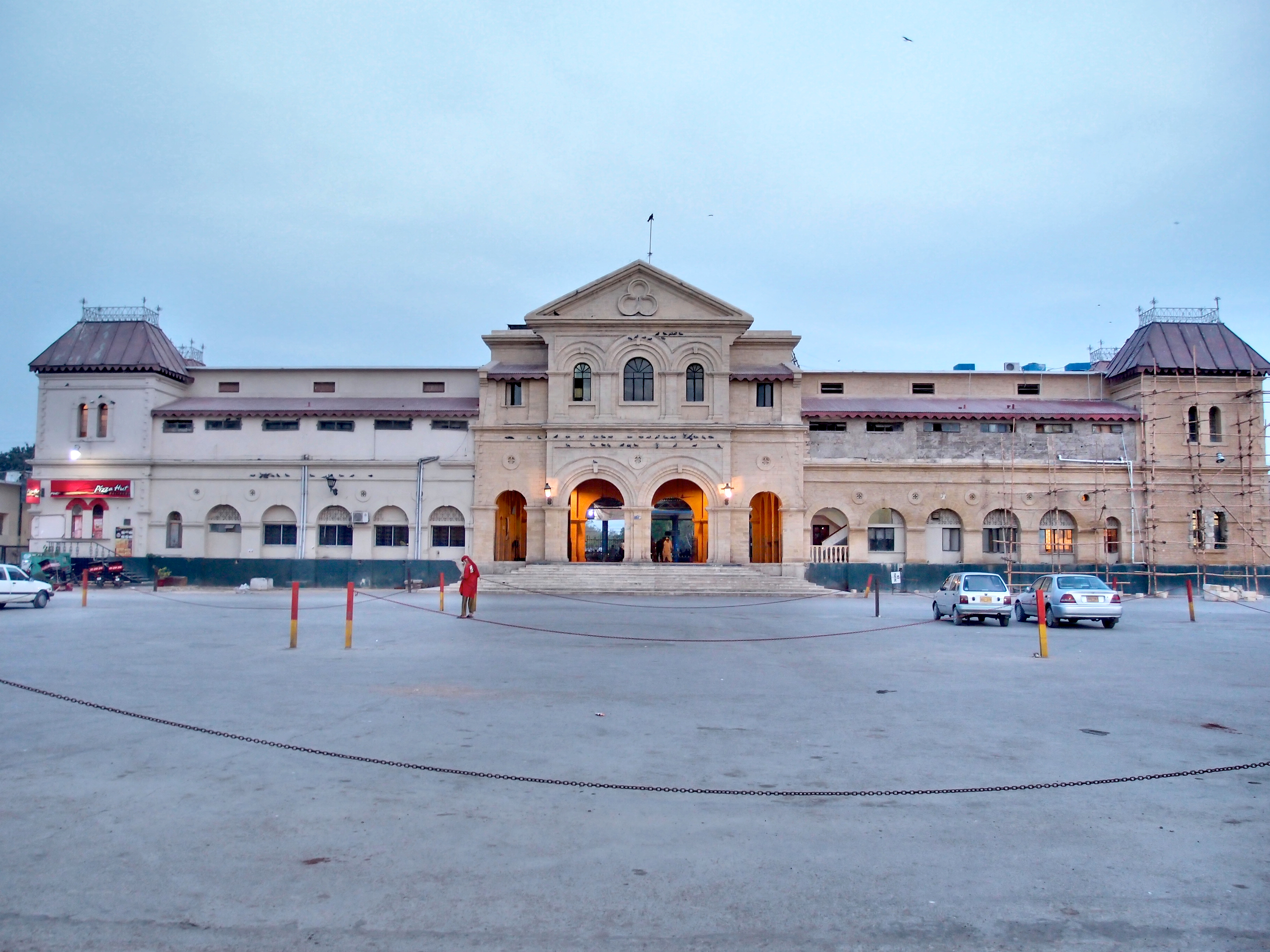 Karachi railway cantt. station facade This is a photo of a monument in Pakistan identified as the PK-S-PH